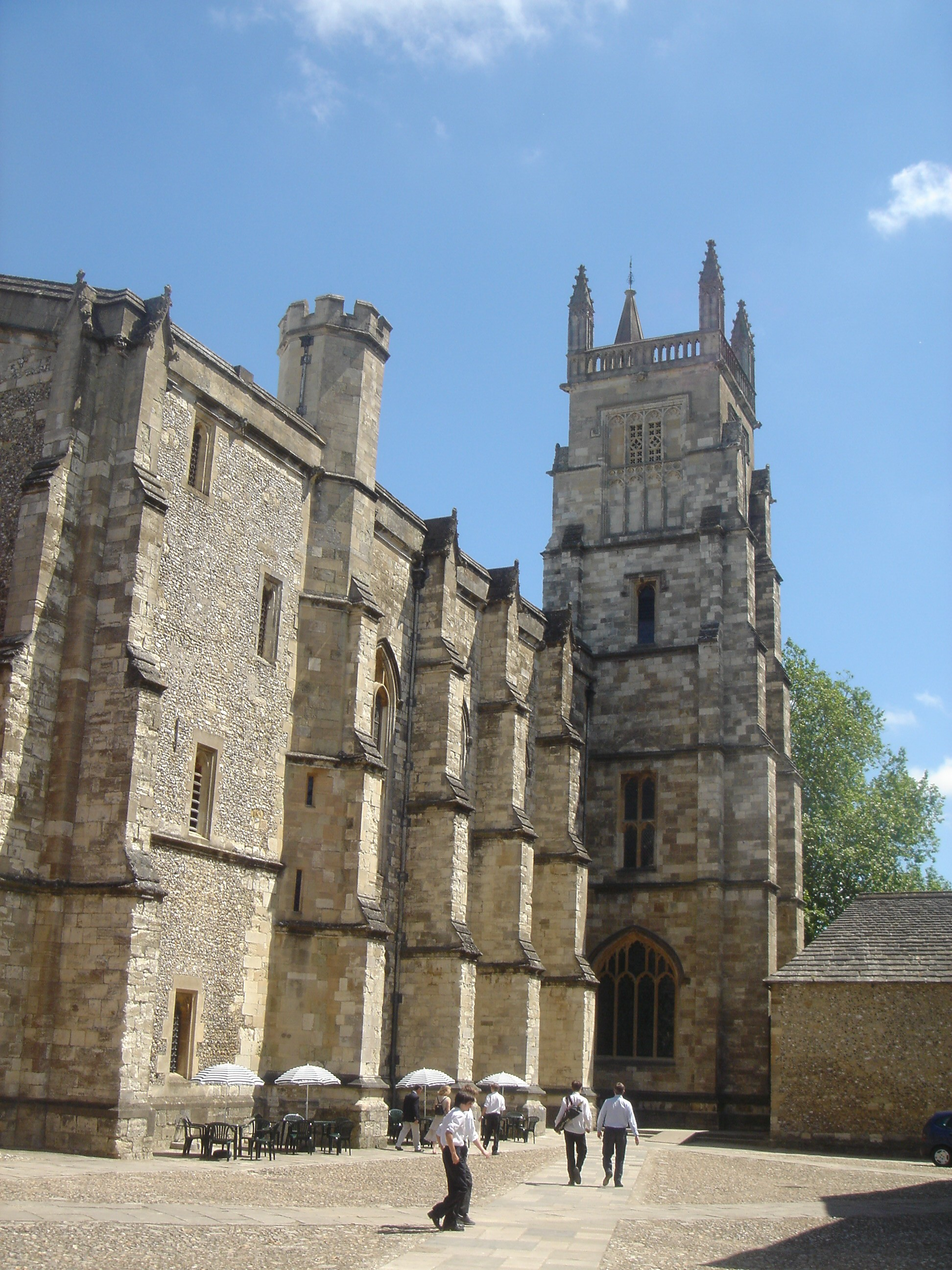 One side of St Mary's Chapel, Winchester College, Hampshire